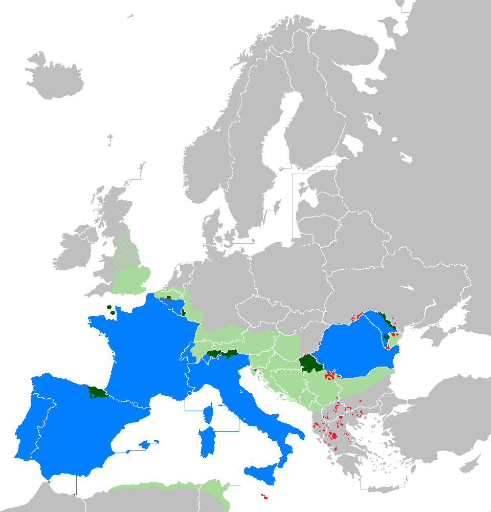 Areas where a latin language is spoken and official. Areas where a latin language is spoken and co-oficial with a non latin language. Areas where a latin language is spoken but not official.